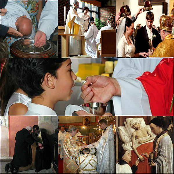 The seven sacraments of the Christian church: Baptism, Confirmation, Matrimony, Eucharist, Penance, Holy Orders and the Anointing of the Sick.